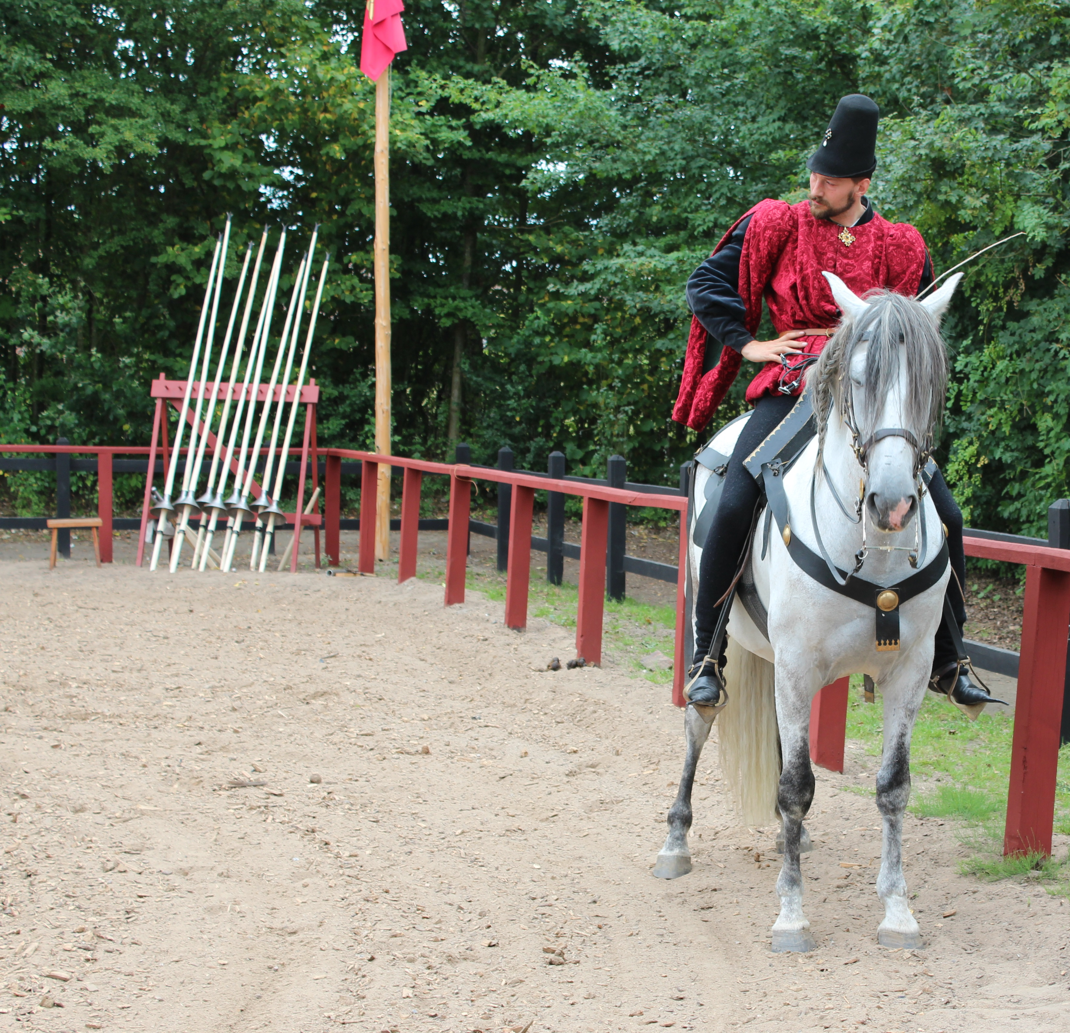 Dutch HEMA practitioner and instructor Arne Koets at Middelaldercentret in Denmark, 2014.